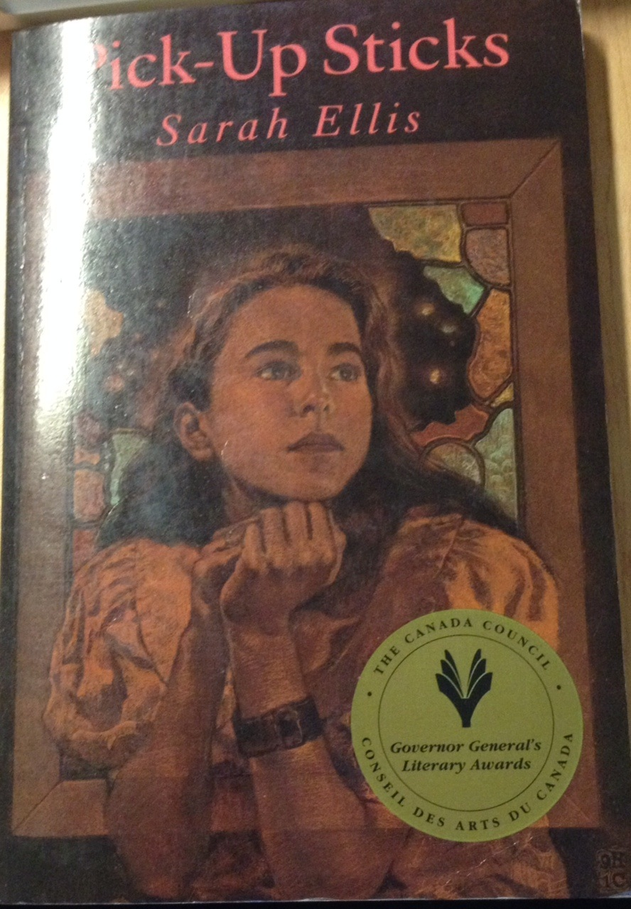 It is a cover of the 1992 first paperback edition of the novel.